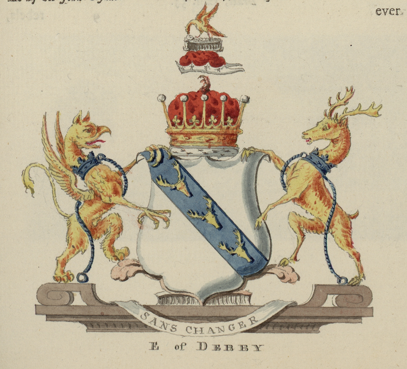 Armorial achievement of the Earls of Derby of the Stanley family, 1781. An image from a set of 8 extra-illustrated volumes of A tour in Wales by Thomas Pennant (1726–1798) that chronicle the three journeys he made through Wales between 1773 and 1776. These volumes are unique because they were compiled for Pennant's own library at Downing. This edition was produced in 1781. The volumes include a number of original drawings by Moses Griffiths, Ingleby and other well known artists of the period.